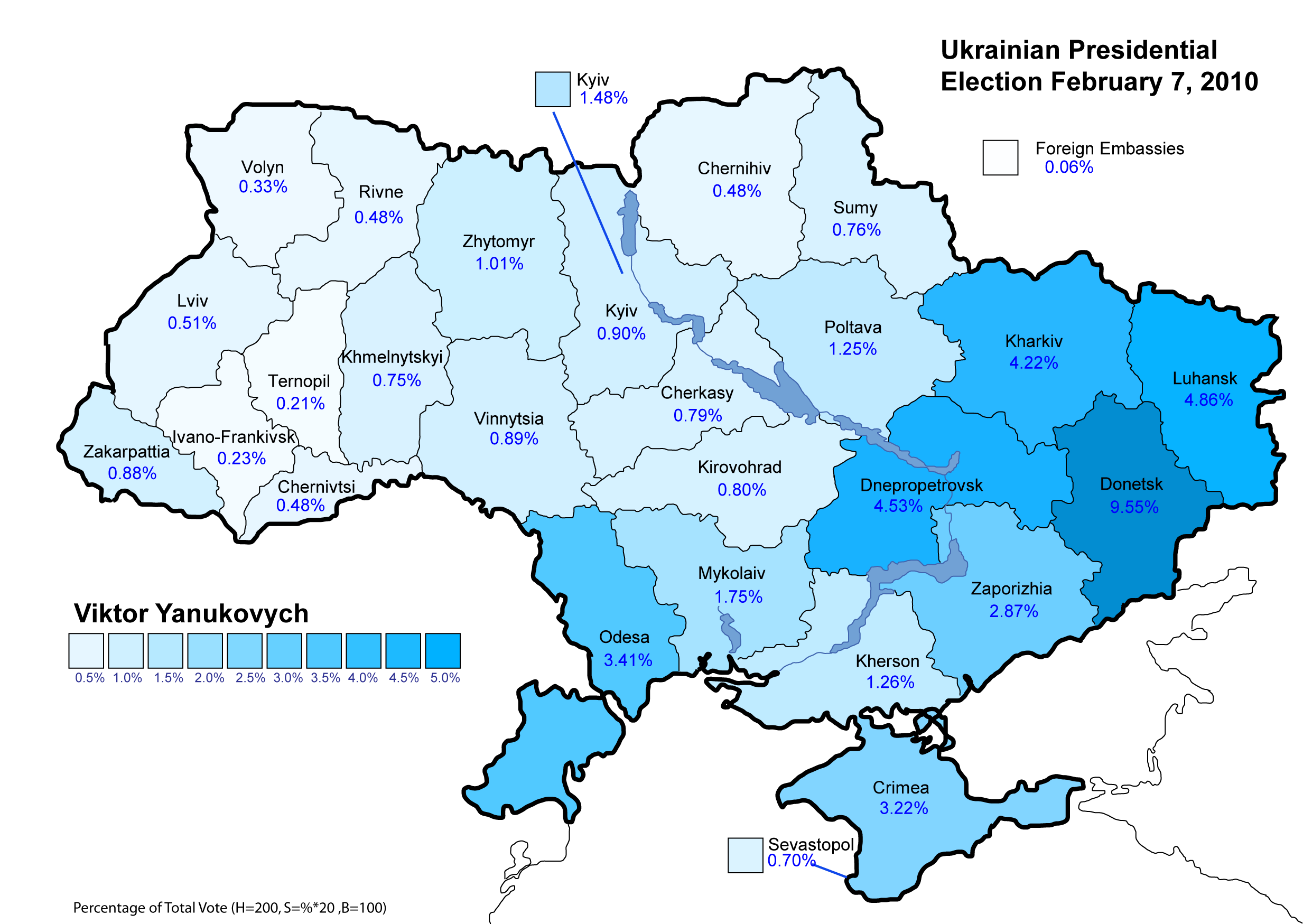 Ukrainian Presidential Election January 2010 - Viktor Yanukovych (Final Round)